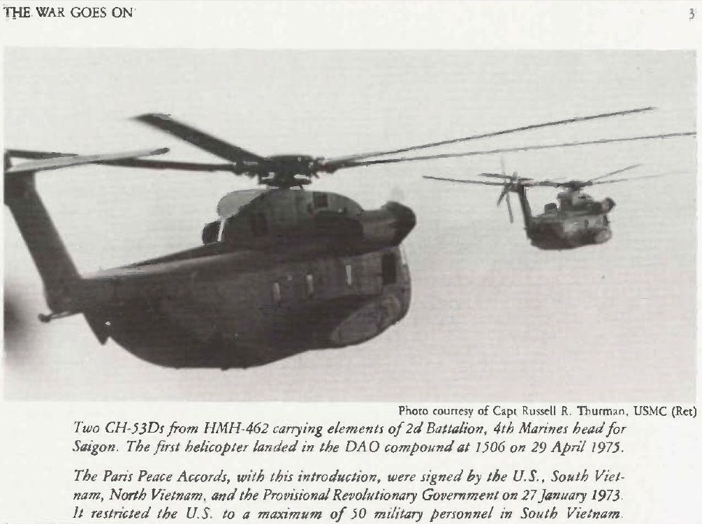 WYSWYG